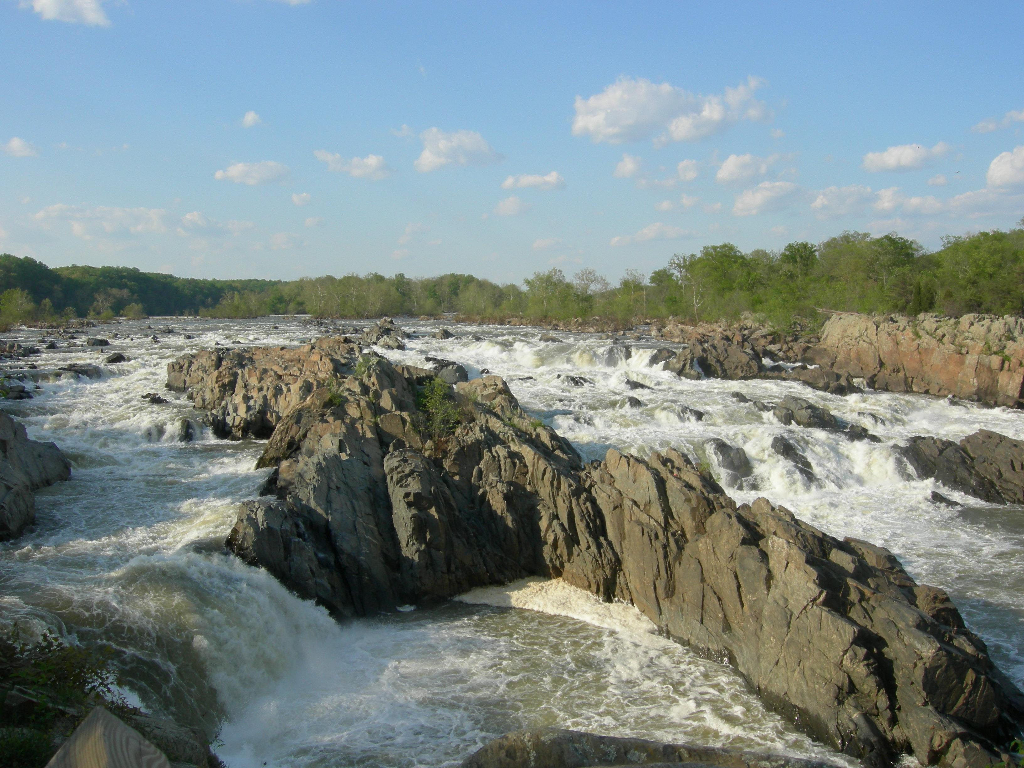 The Great Falls of the Potomac River, as seen from Overlook 1 in Great Falls Park.